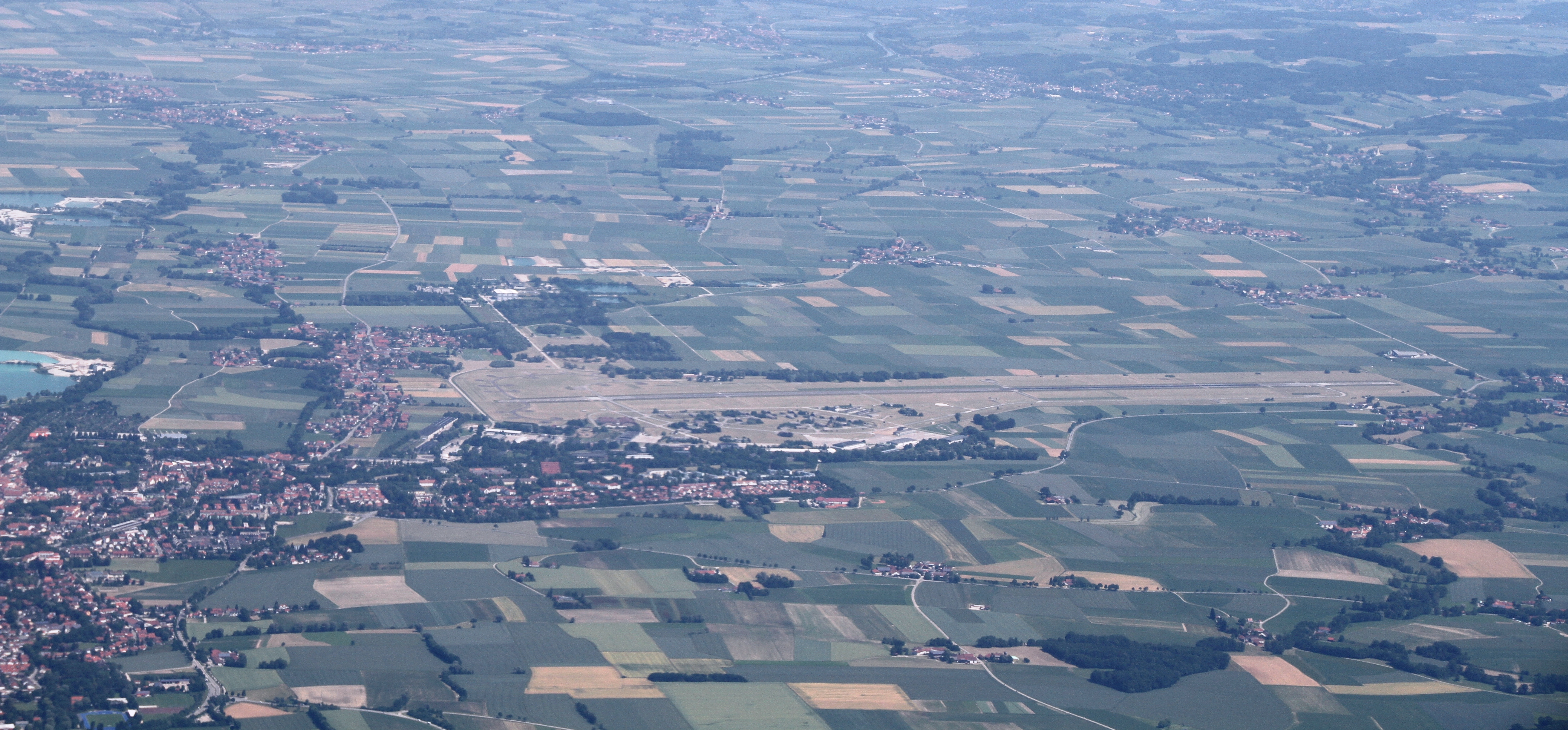 Aerial view of the area just northeast of Munich, Bavaria, Germany. This is from Landkreis Erding